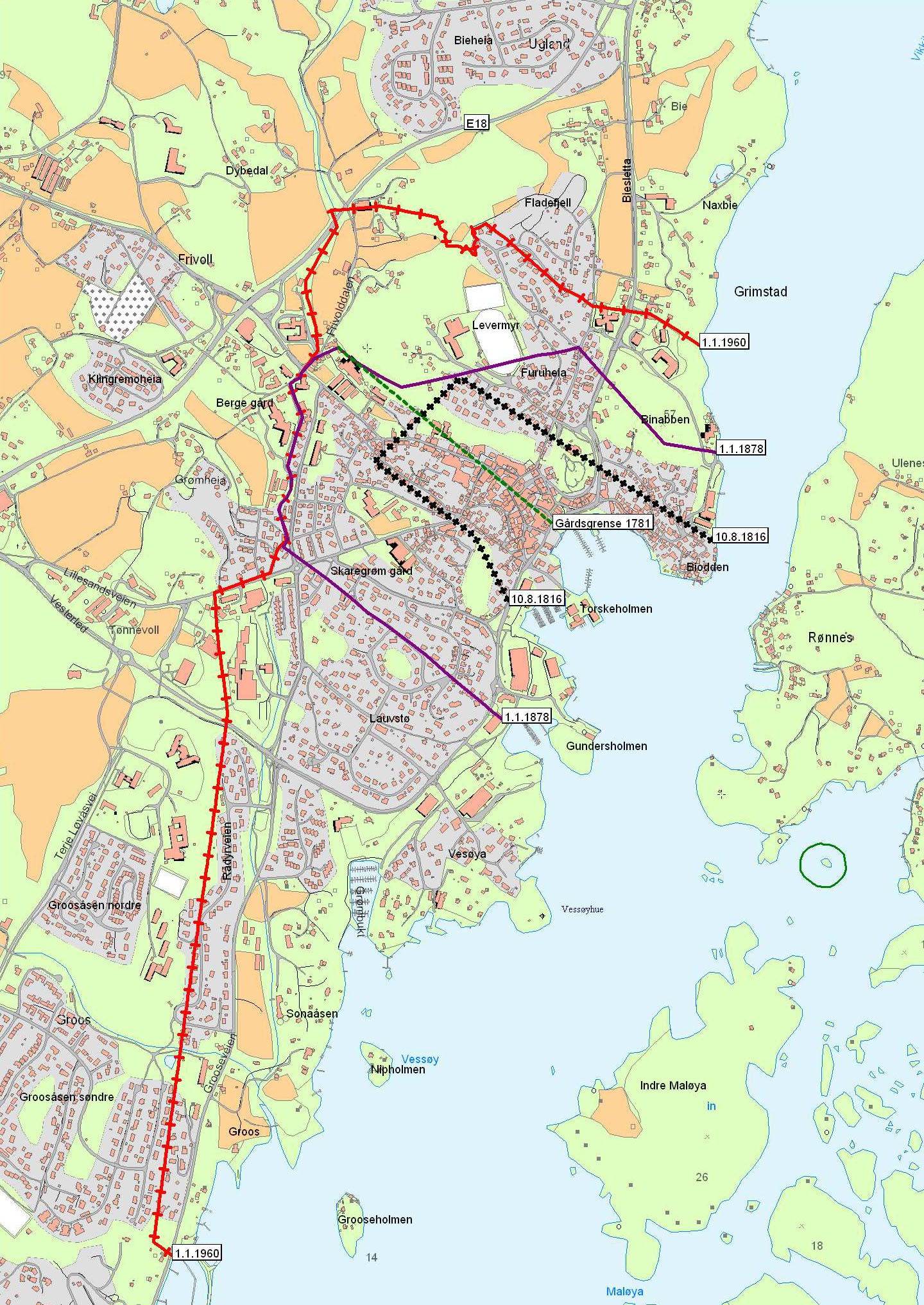 Grimstad town, boundaries 1816-1960